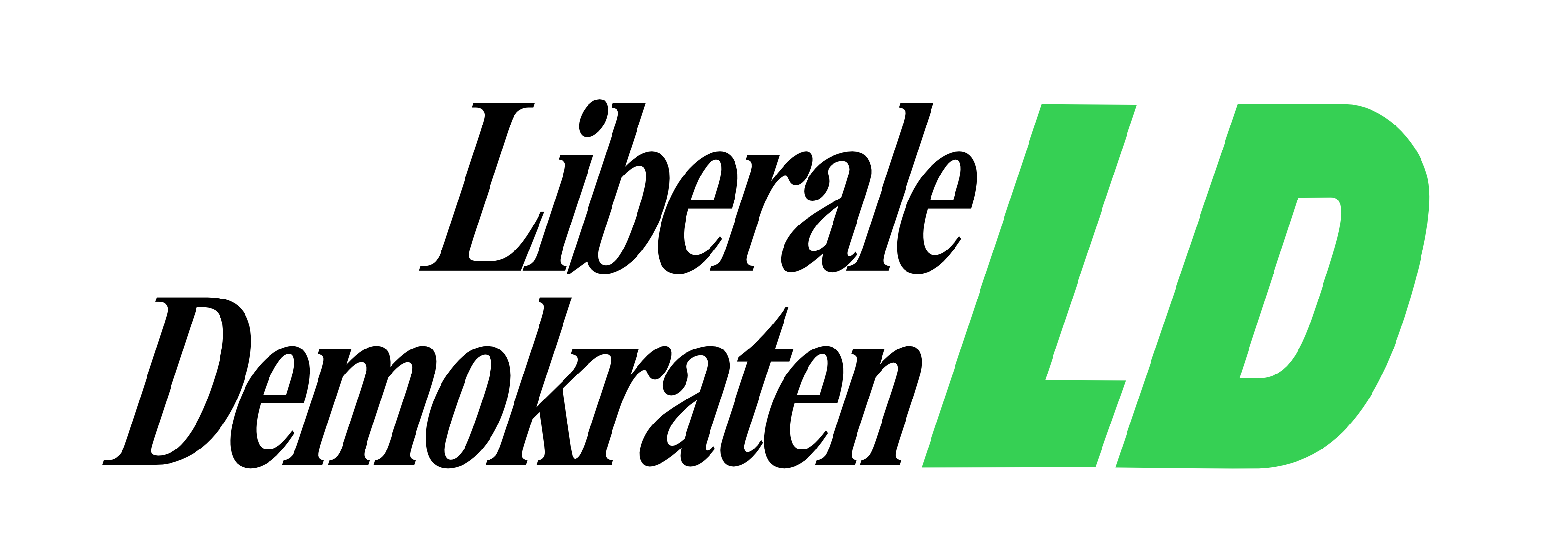 Logo of the german Liberal Democrats. Used until 2007.